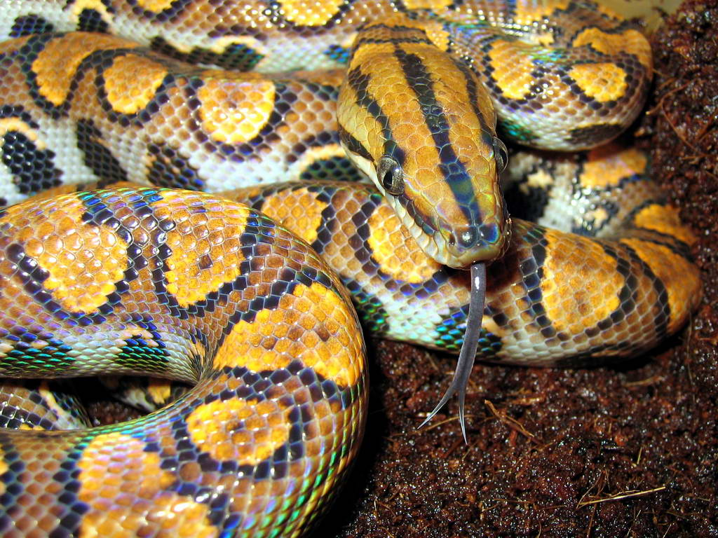 Epicrates Cenchria Cenchria Photo: karoH